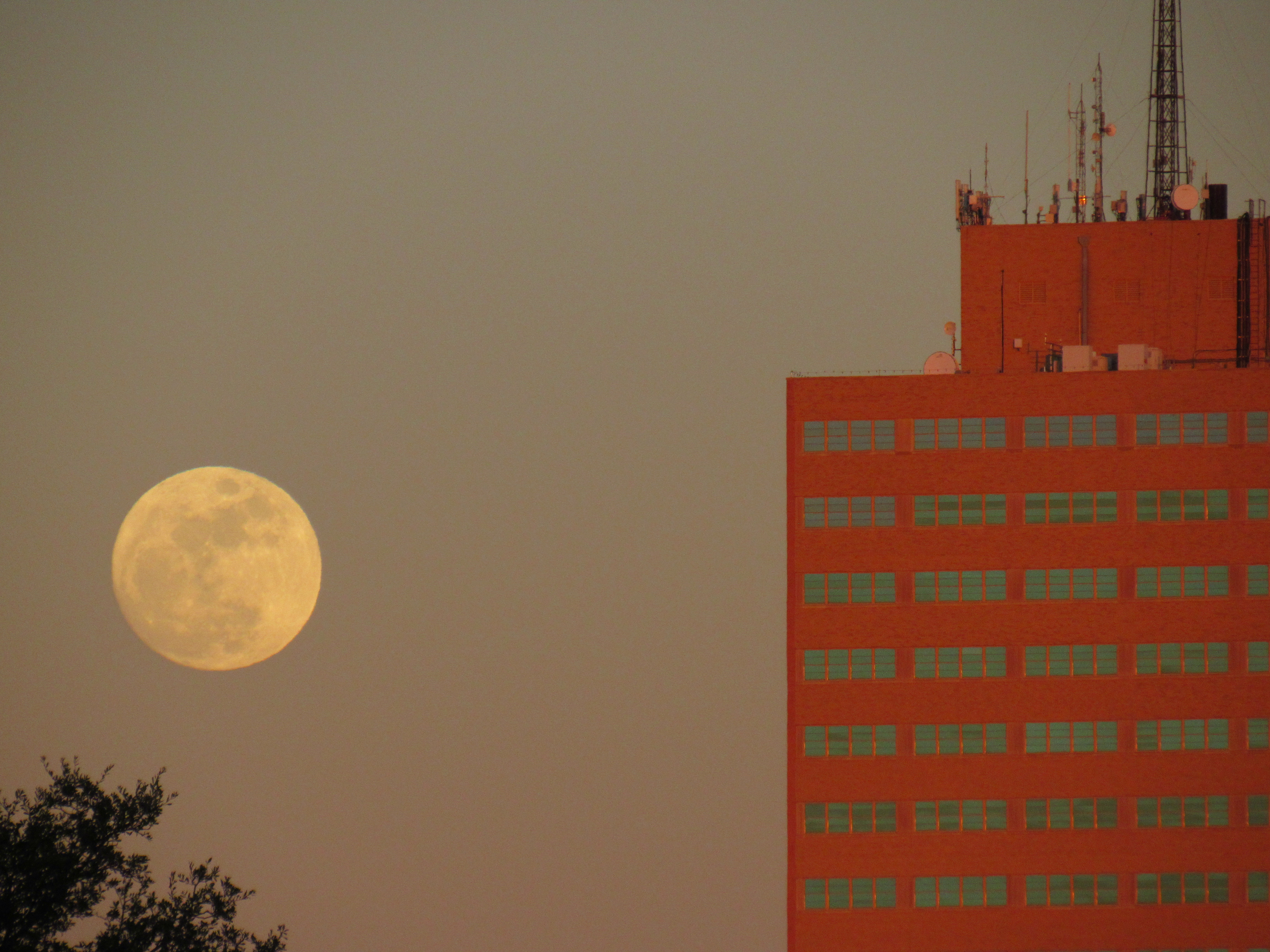 The Wilco Building in Midland, Texas, with the moon on 11JAN2017